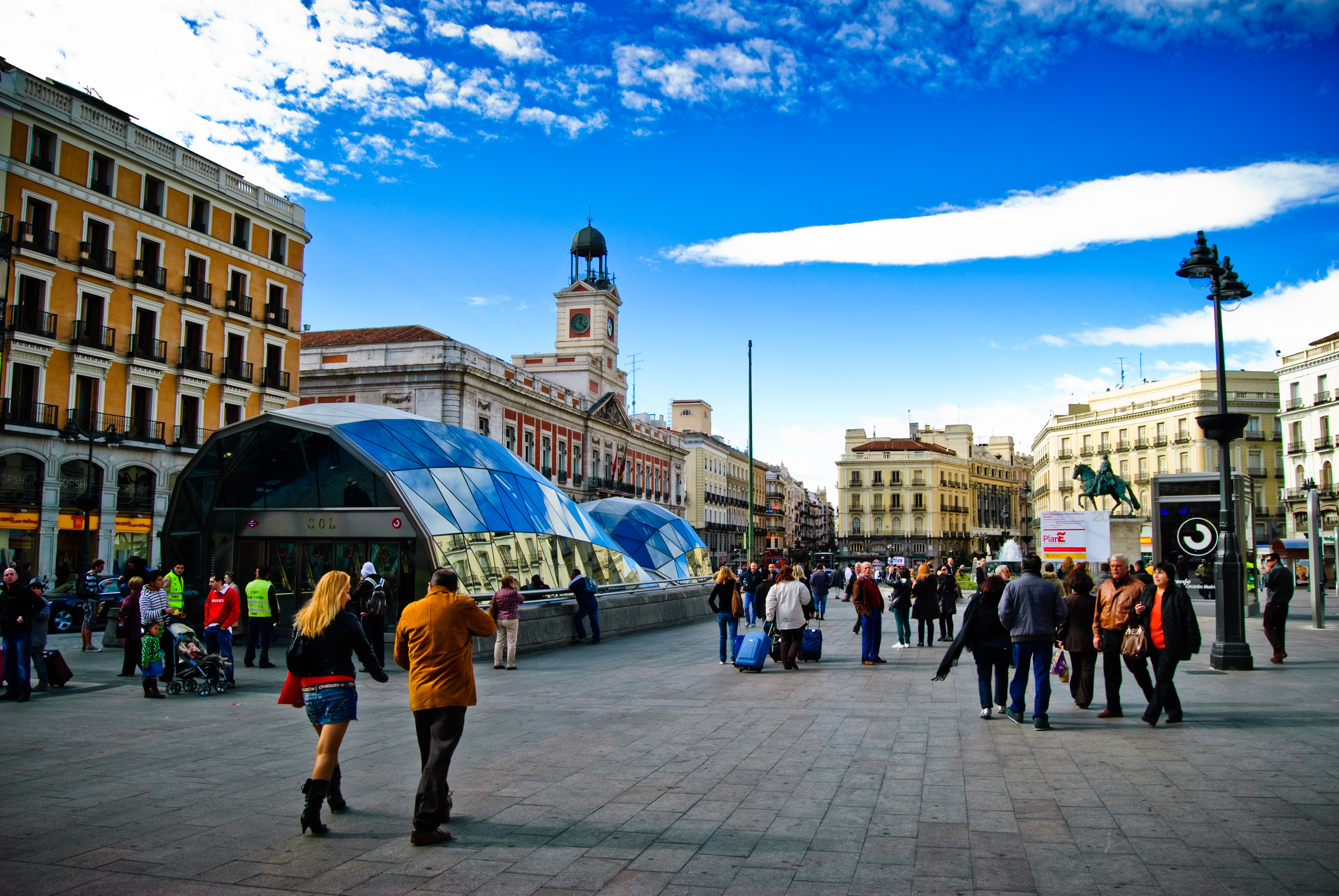 View of the square called Puerta del Sol ("Gate of the Sun") in the centre of Madrid, showing the new metro interchange.